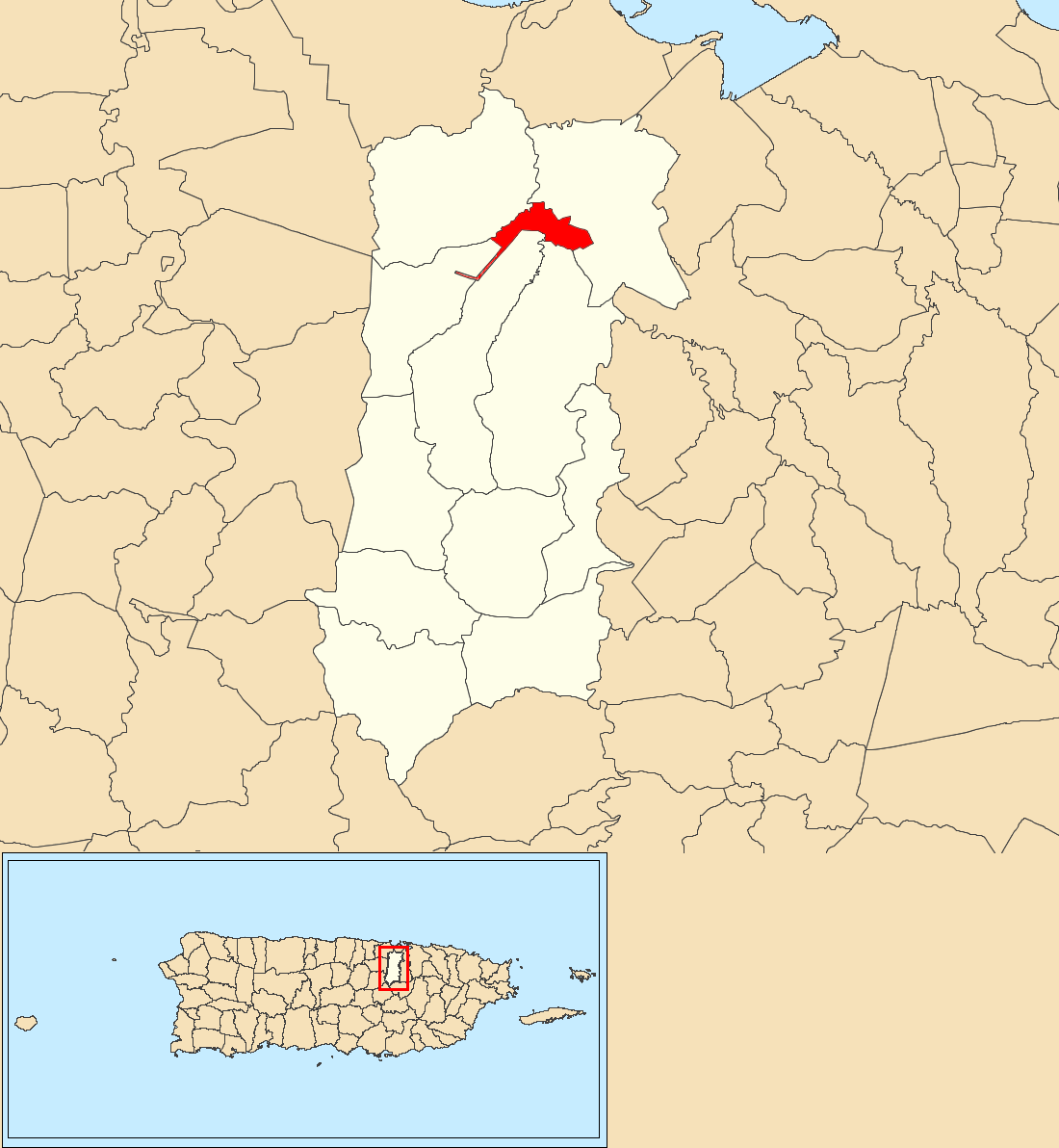 Bayamón barrio-pueblo, Bayamón, Puerto Rico locator map